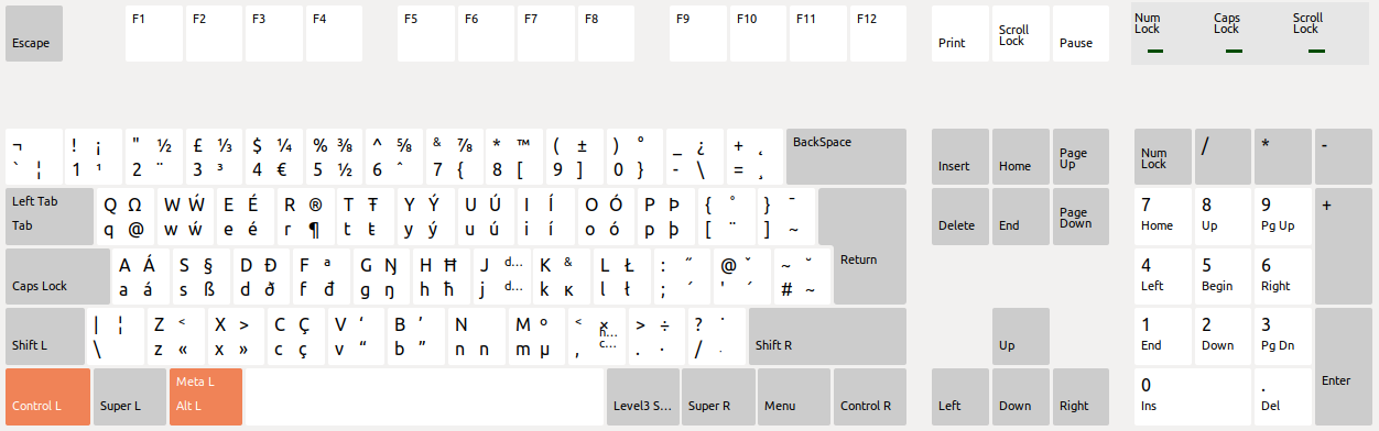 English United Kingdom Extended Keyboard under Ubuntu